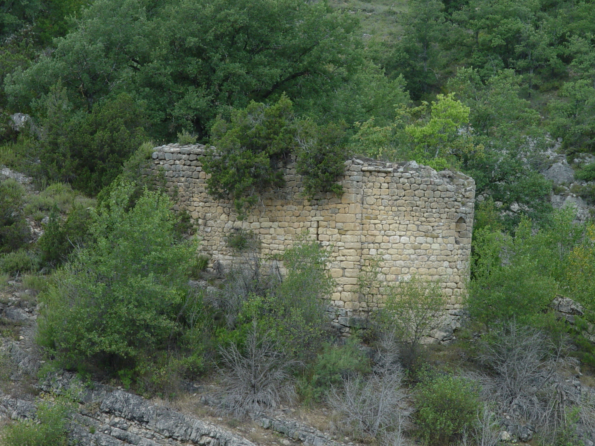 Ermita de la Mare de Déu del Congost de Girveta